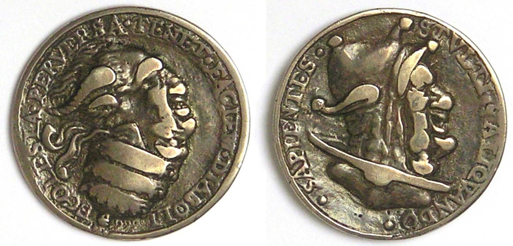 "The perverted church got the face of the devil". "Perversa" is a play of word, as it also means "completely return" (by 180°) "SAPIENTES STULTI ALIQUANDO"